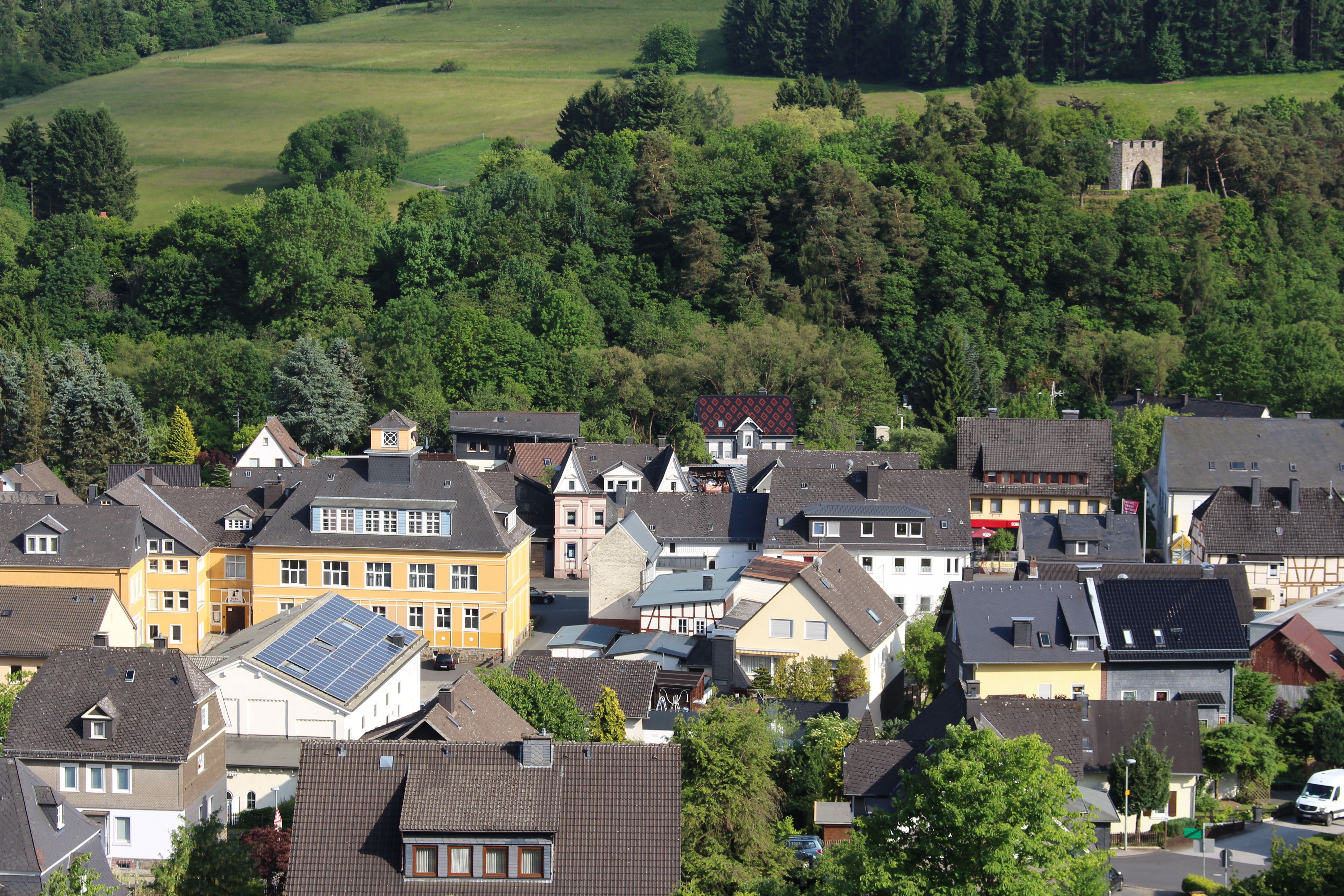 View on the city of Bad Laasphe, NRW, Germany.